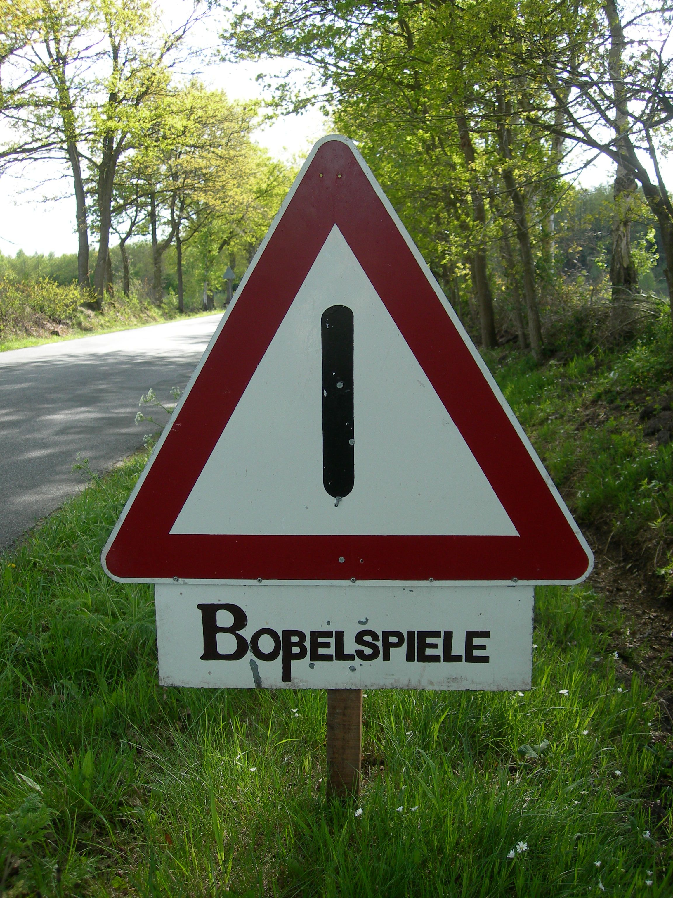 Traffic sign Nr. 1